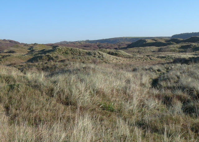 Grassy duneland, Merthyr Mawr Warren Picture showing some of the smaller dunes which lie relatively close to the coast at Merthyr Mawr Warren.